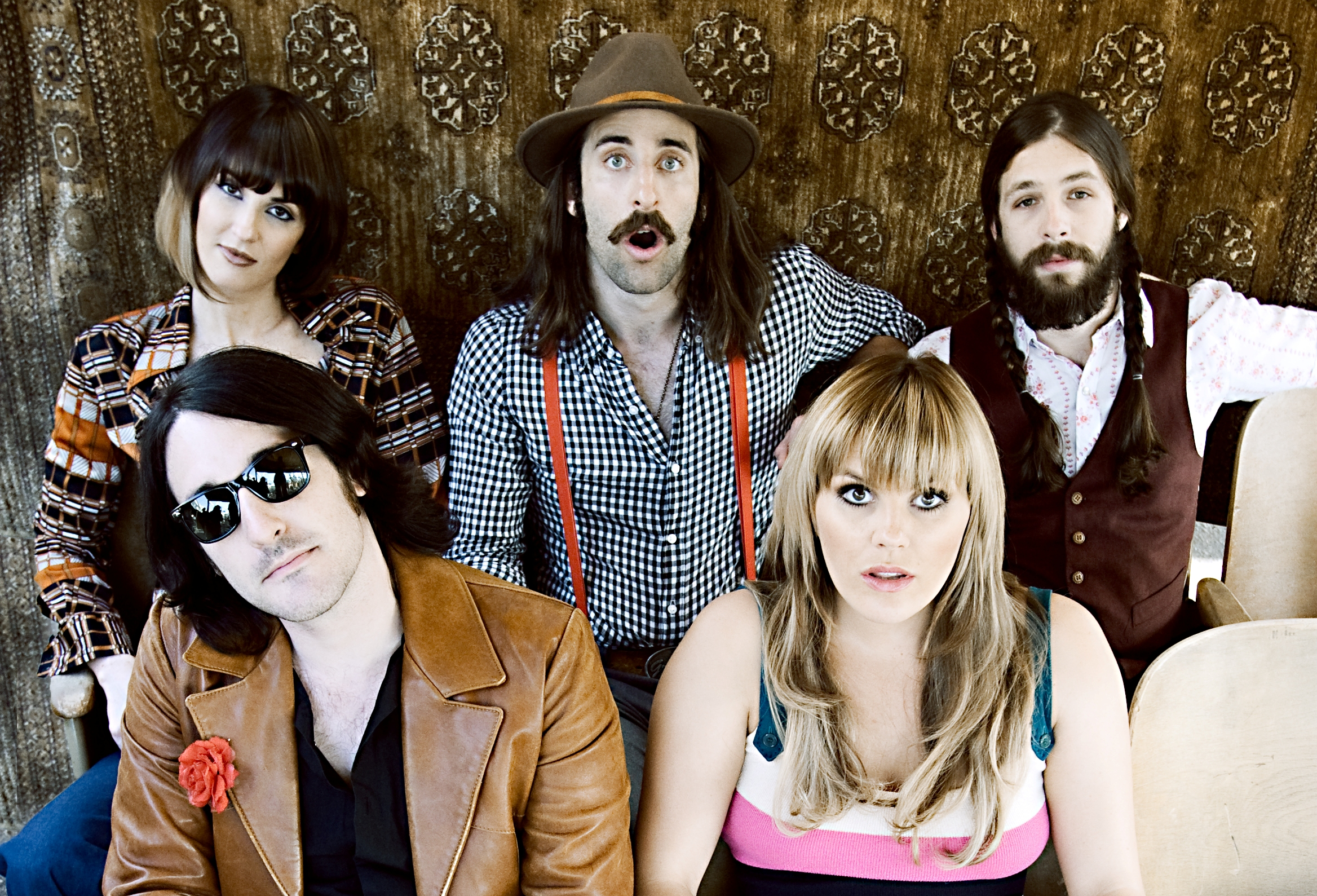 Photo Credit: Adrien Broom